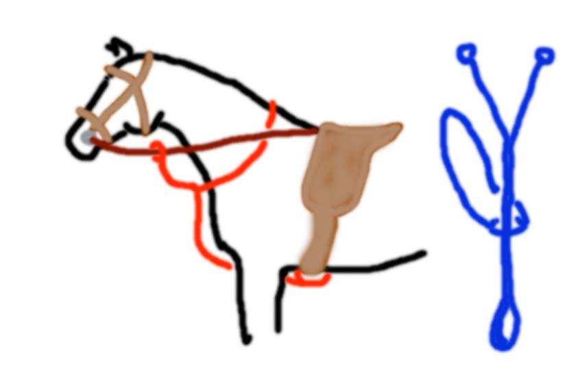 A running martingale on a horse and separate.